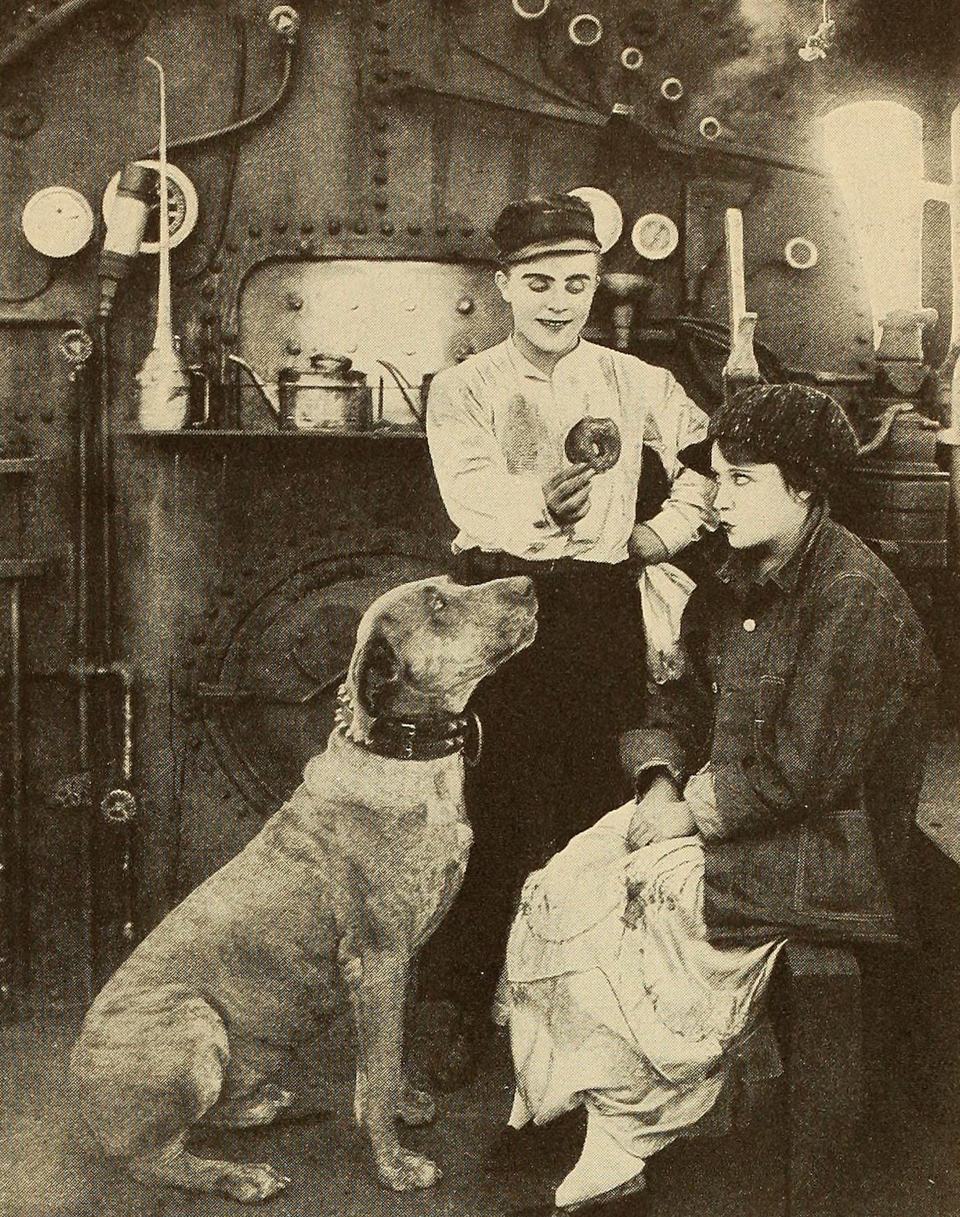 A scene from Teddy at the Throttle (1917) published in The New Movie, July 1930